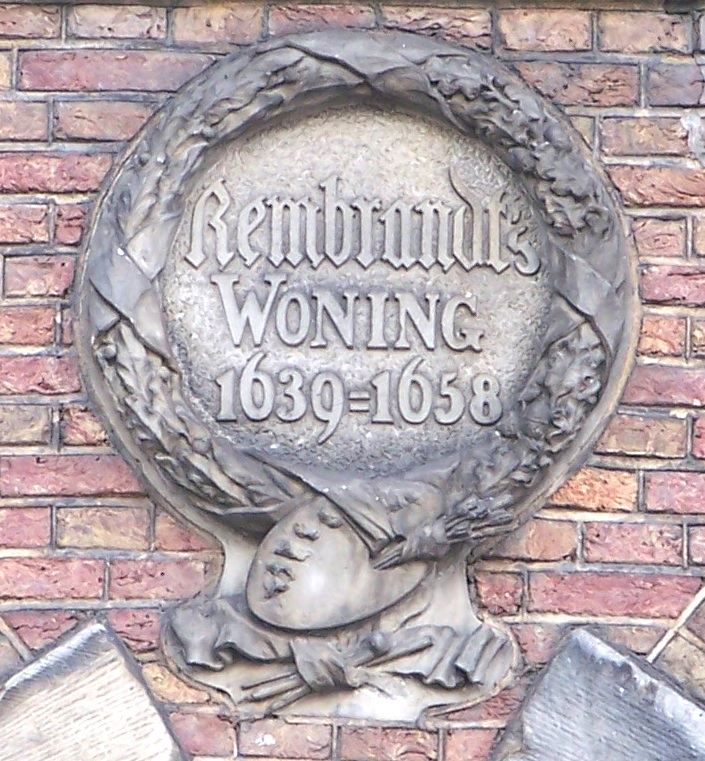 Jodenbreestraat 4, Rembrandthuis